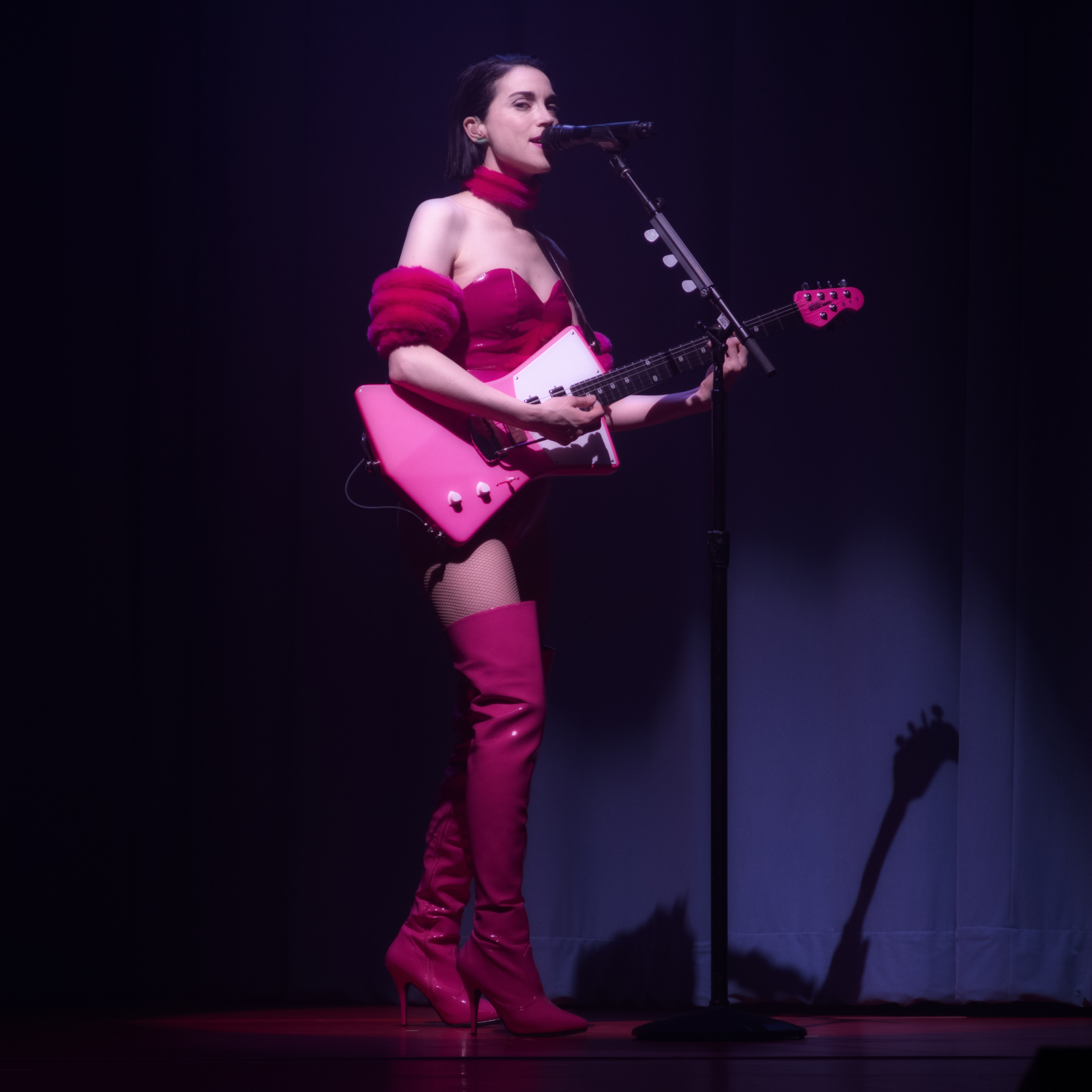 St. Vincent